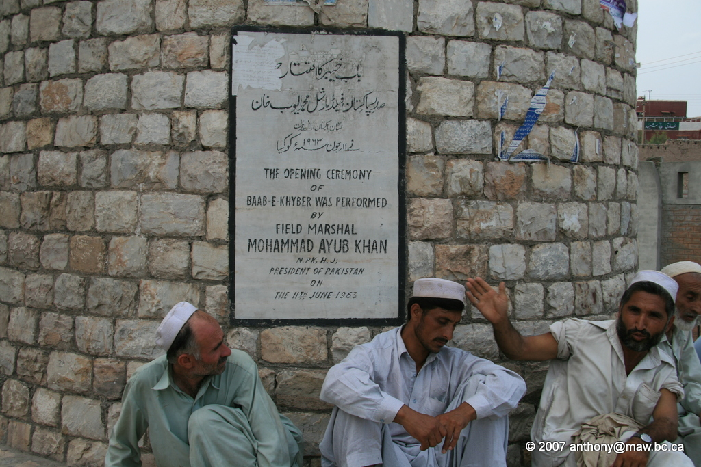 A few locals resting at Khyber Gate beneath the commemoration plaque.